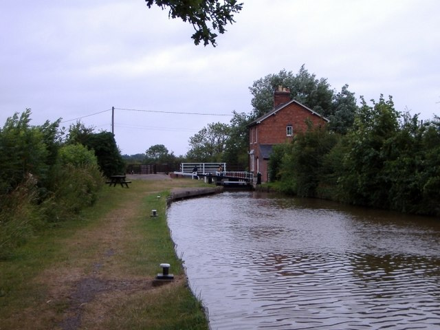 Marbury Lock. Marbury Lock at Church Bridge on the Llangollen branch of the Shropshire Union Canal. Former lock-keeper's cottage on the right.